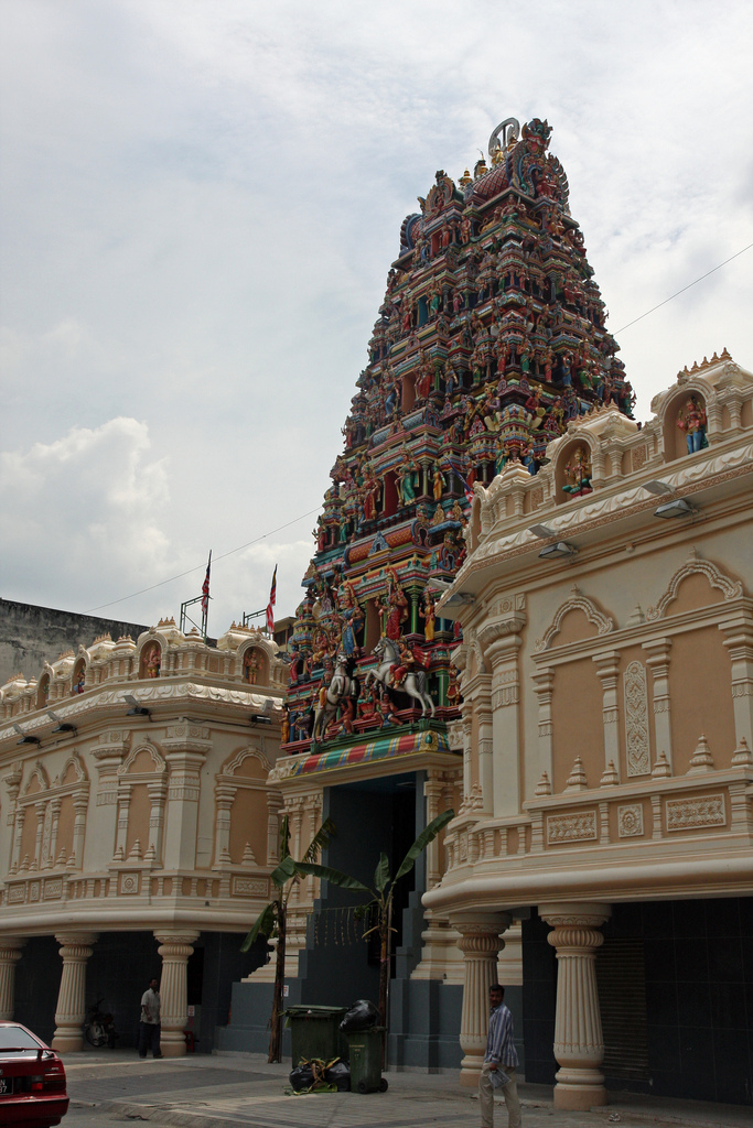 Sri Mahamariamman Temple, Kuala Lumpur's most central Hinu templr Location: Kuala Lumpur